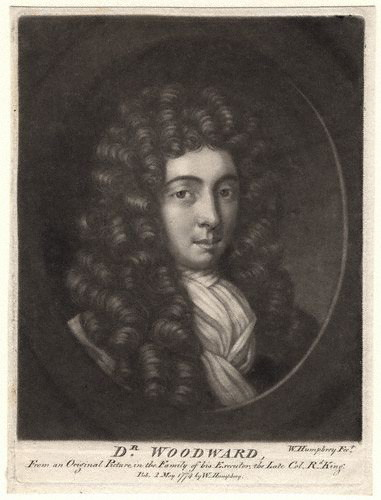 John Woodward (1665-1728), English naturalist, botanist and geologist